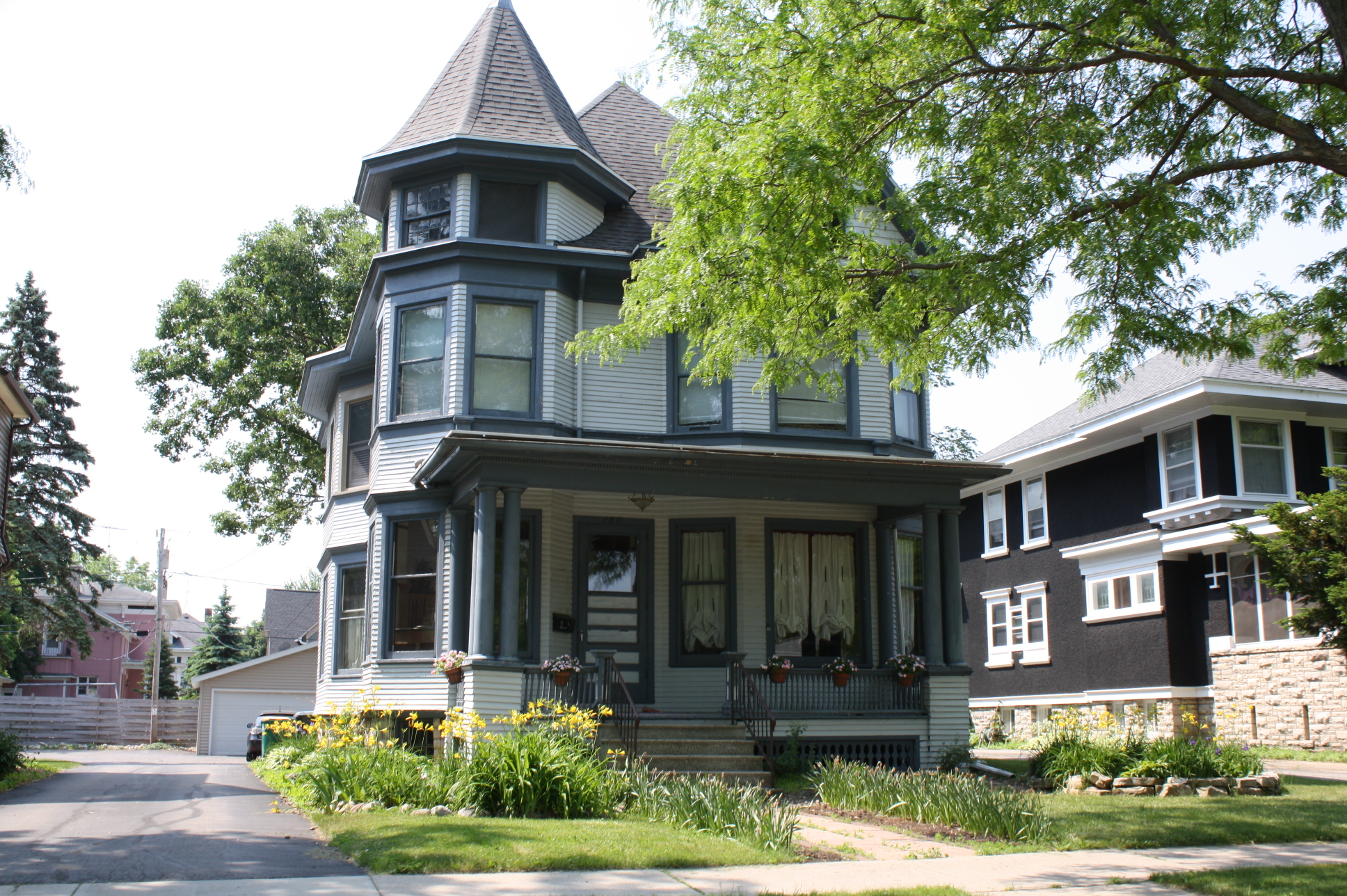 A house in the East Division Street-Sheboygan Street Historic District in Fond du Lac, listed on the National Register of Historic Places.